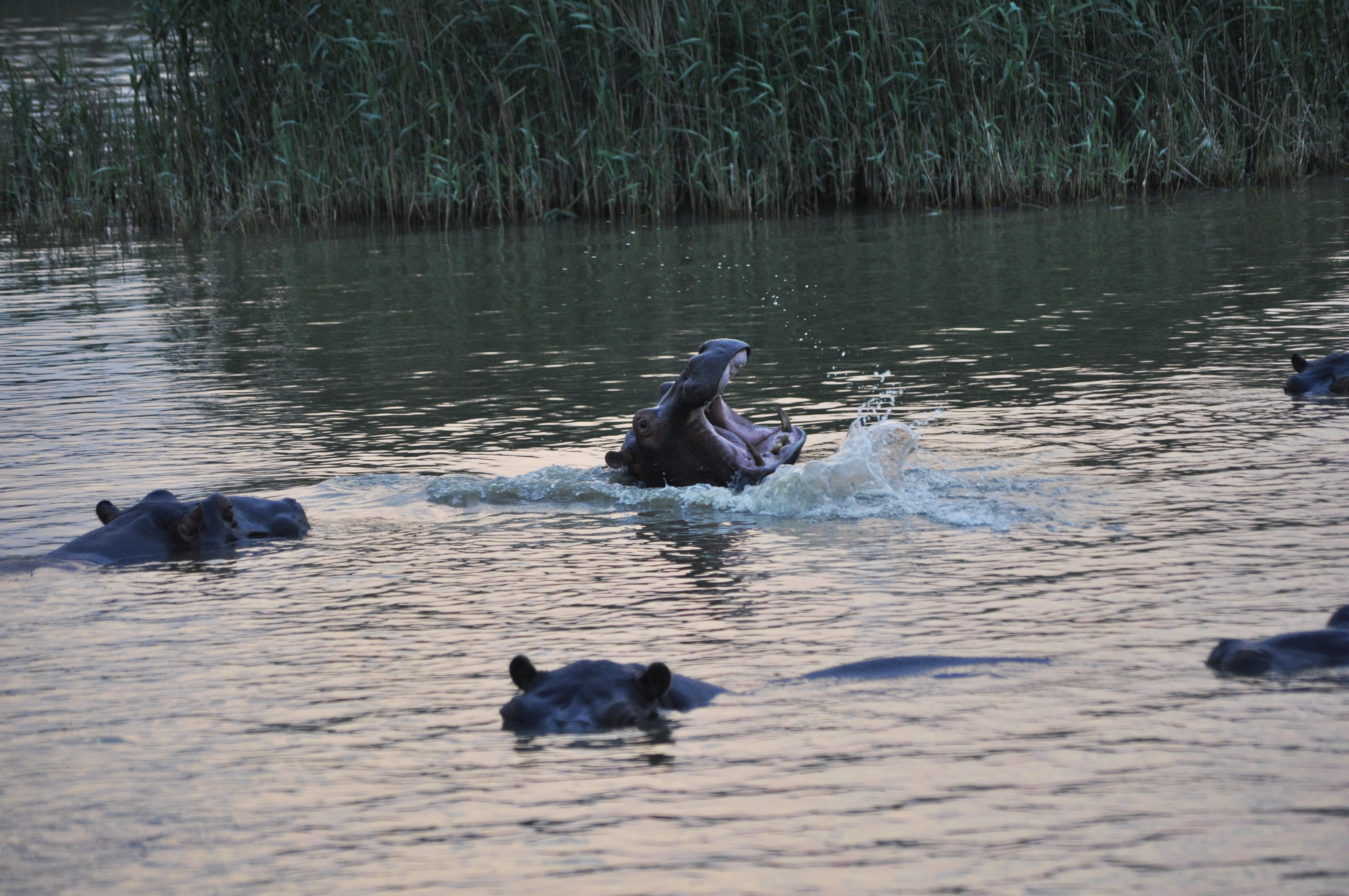 Hippo